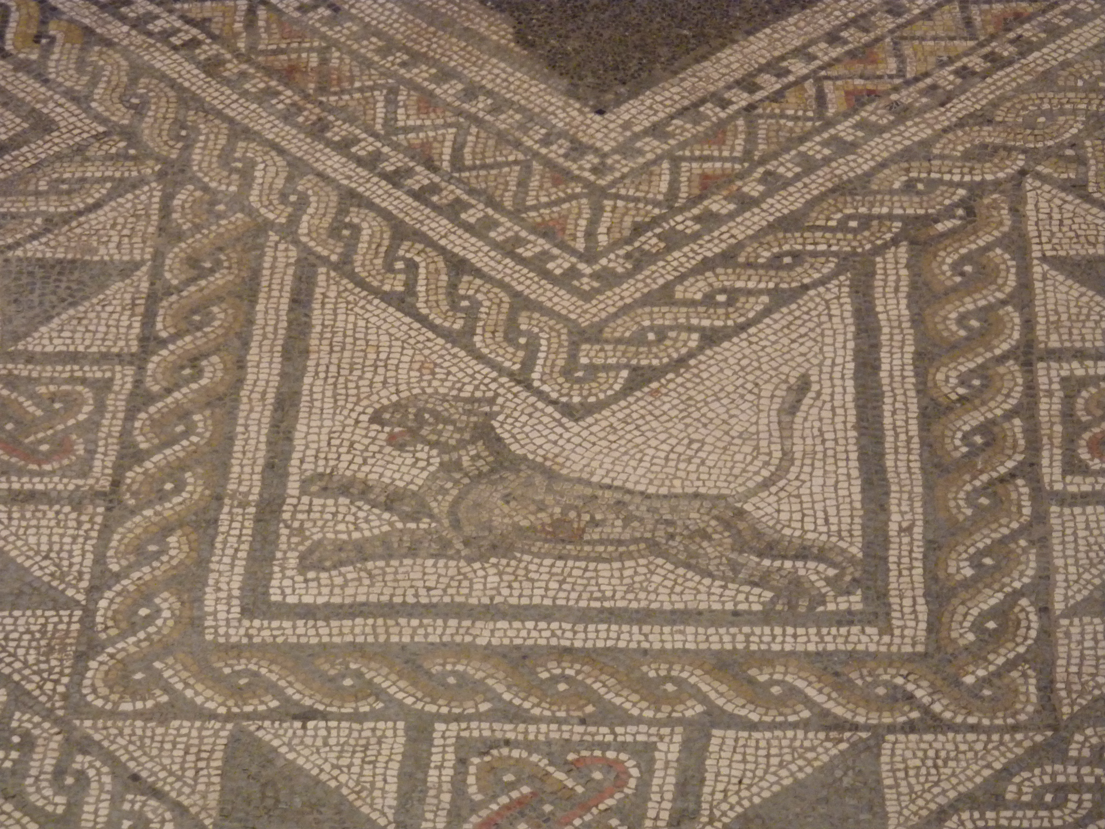 Mosaic of the "basilica", Grand, Vosges, France. Detail of the panther.